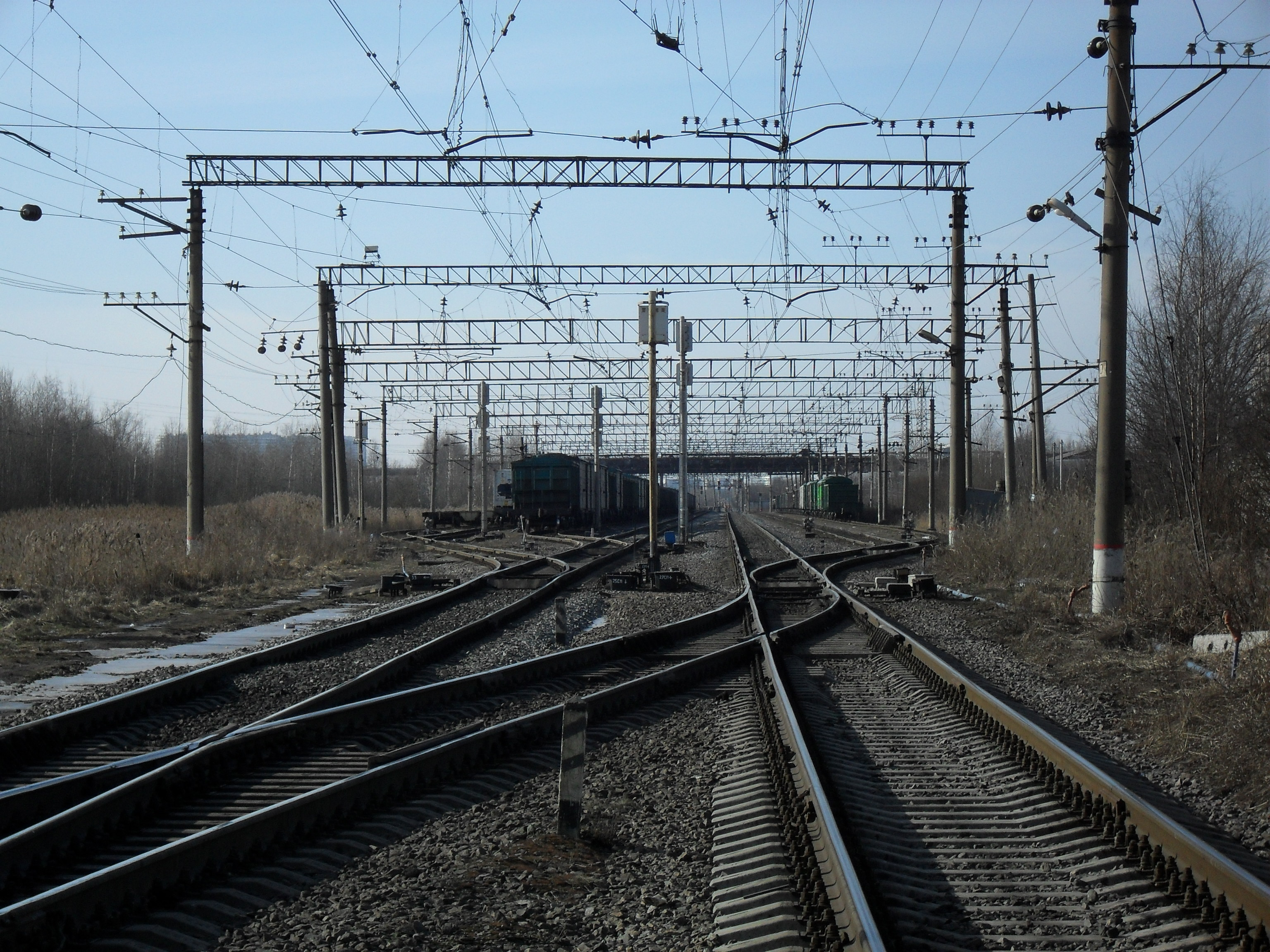 Kupchinskaya station